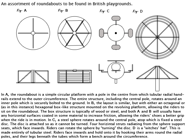 A simplified drawing of some types of roundabout to be found in British playgrounds, along with a brief description of each type.